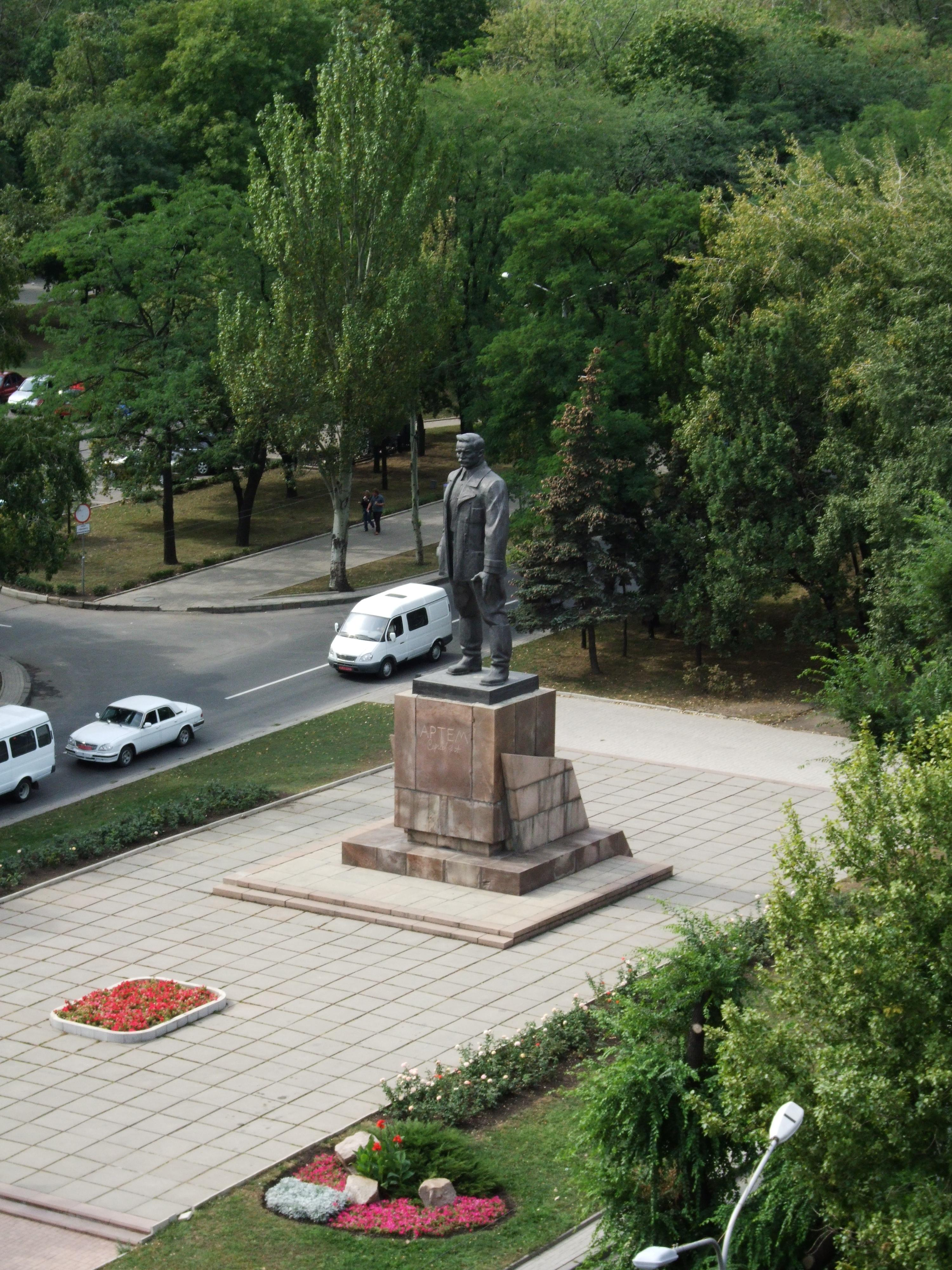 Donets'k, Monument to Artem